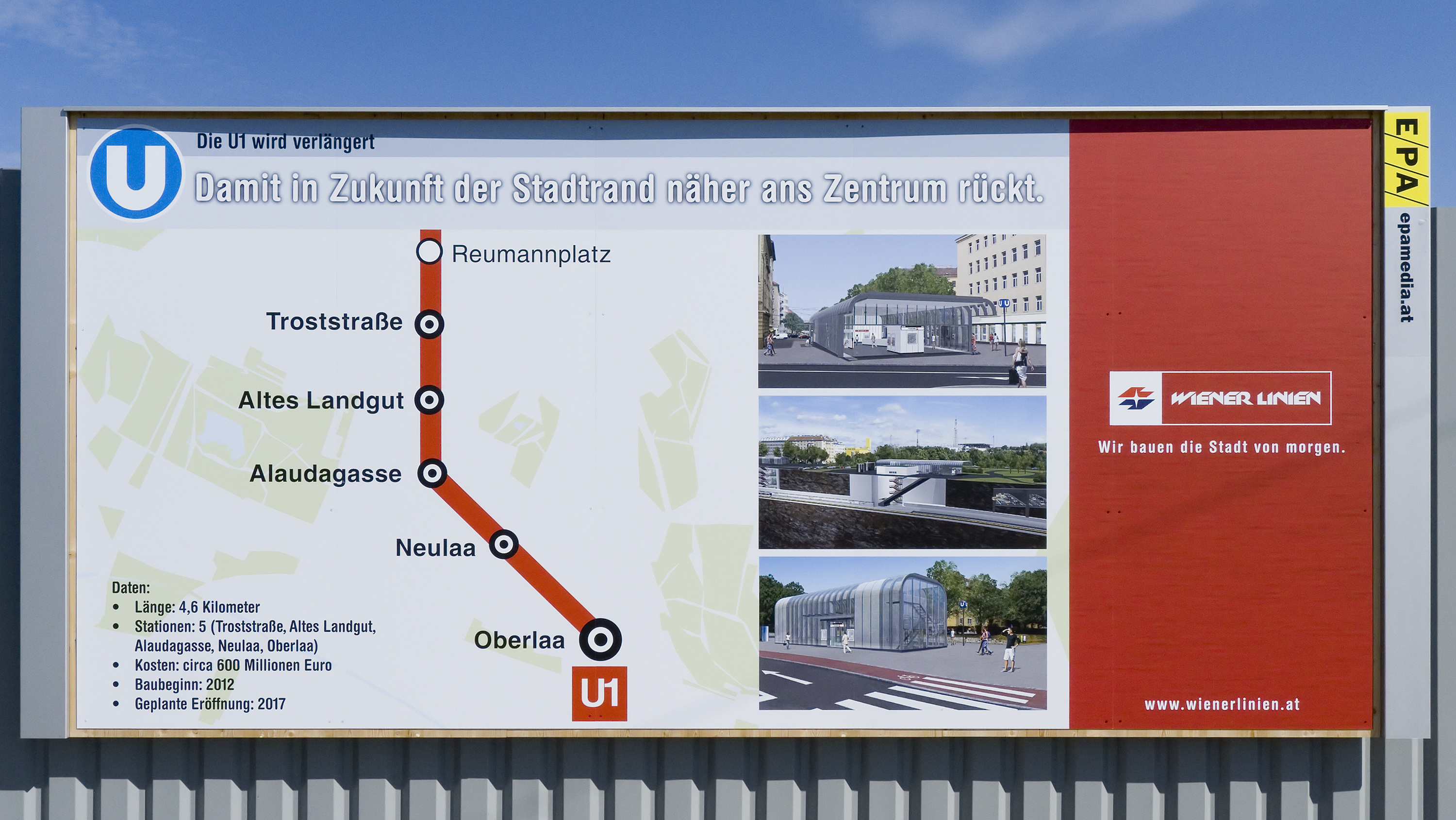 Underground station U-Bahn-Station Altes Landgut in Vienna 10